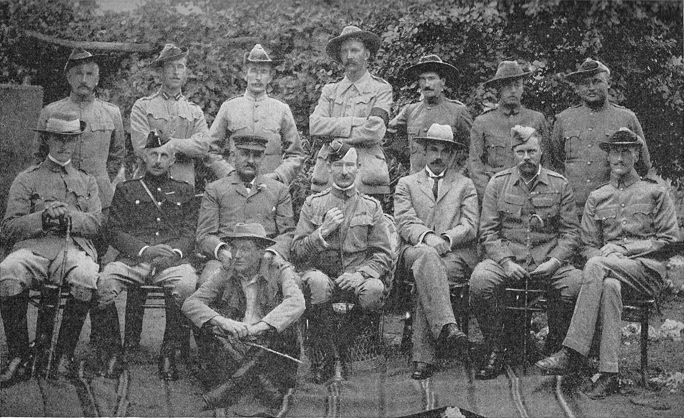 Photograph Robert Baden-Powell and his staff after the Siege of Mafeking in South Africa, published in The Black and White Budget Vol 3 No 35, page 297. Main caption reads "Major-General Baden Powell and the principal men who helped him to defend Mafeking". Smaller text reads : The names, read from left to right and from top to bottom, are: 1. Major Panzera, Artillery 2. Capt. Ryan, Commissariat 3. Capt. Greener, Paymaster 4. Chief Staff Officer, Major Lord Edward Cecil 5. Capt. Wilson, A.D.C. Baden-Powell (Lady Sarah's husband) 6. Lt. the Hon. Hanbury Tracy, Censor 7. Capt. Cowan, Bechuanaland Volunteers 8. Major Godley 9. Col. Vyvyan 10. Mr. Bell, C.C.R.M. 11. Major General Baden-Powell 12. Major Whiteley (Frank Whiteley, mayor of Mafeking) 13. Colonel Hore, Protectorate Regt. 14. Dr. Hayes, P.M.O. town 15. Lt. Moncrieff, Hon. Extra A.D.C. to Colonel "B.-P."